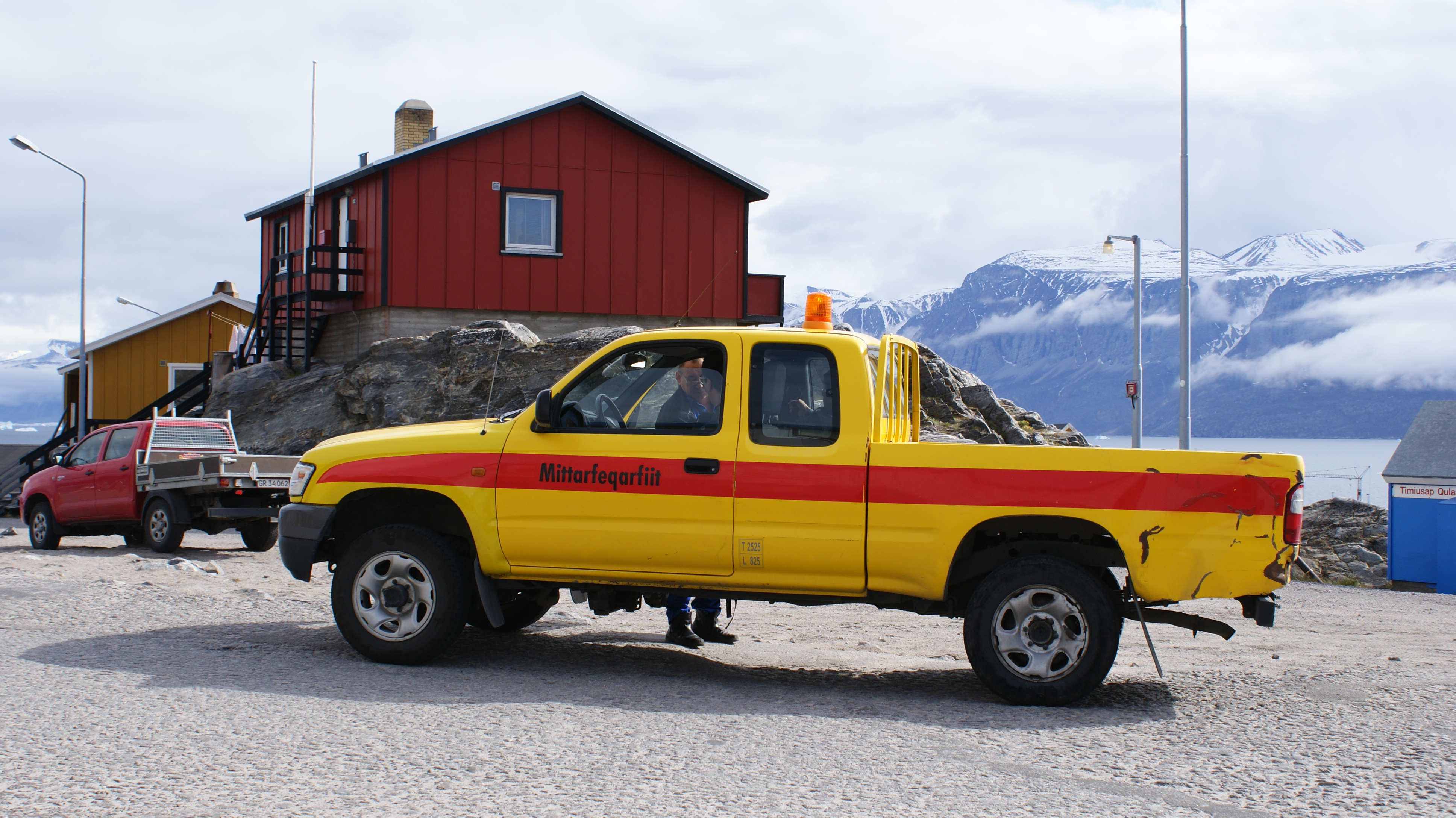 Mittarfeqarfiit semi-truck in Uummannaq.